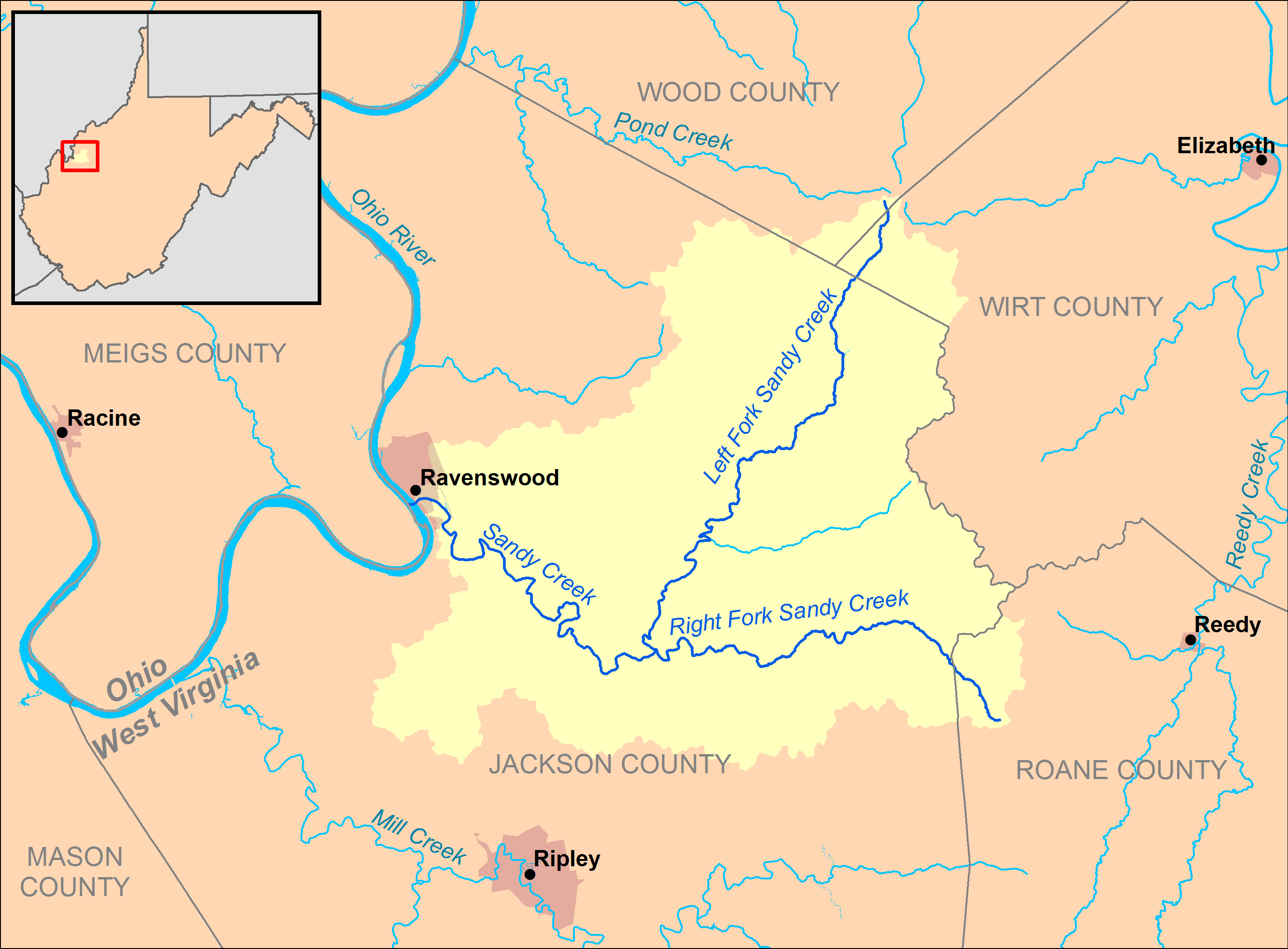 A map of Sandy Creek and its watershed (USGS HUC-12 codes 050302020501, 050302020502, 050302020503, and 050302020504) in Jackson, Wood, Wirt, and Roane counties in West Virginia.